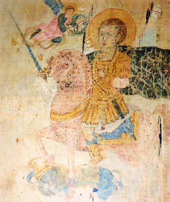 Flag of Souliot warlord Tousias Botsaris (1750-1792). Second side - Demetrius of Thessaloniki